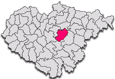 Map Salaj County Romania